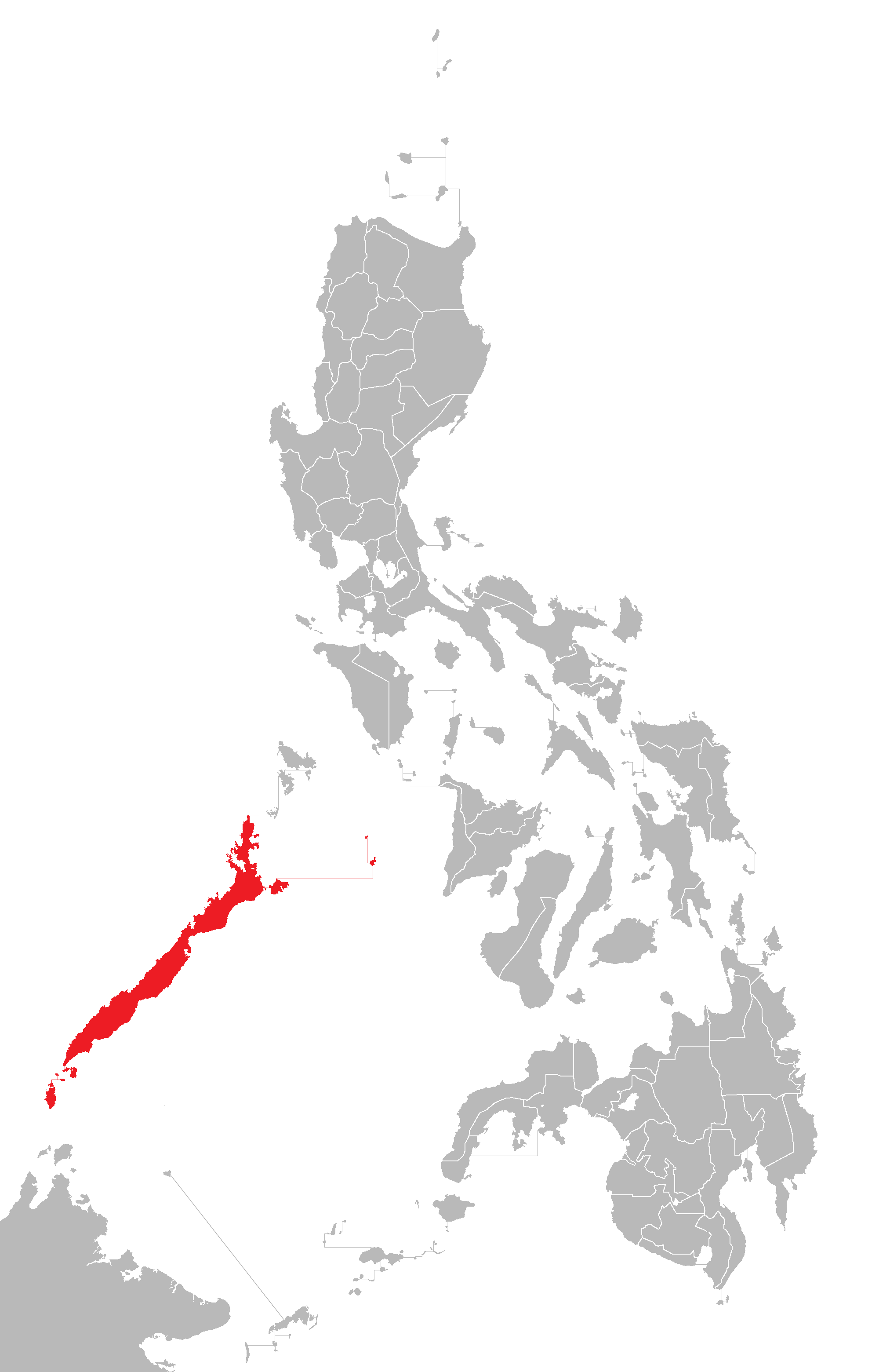 Derived from File:BlankMap-Philippines.png Map of Palawan Island In red